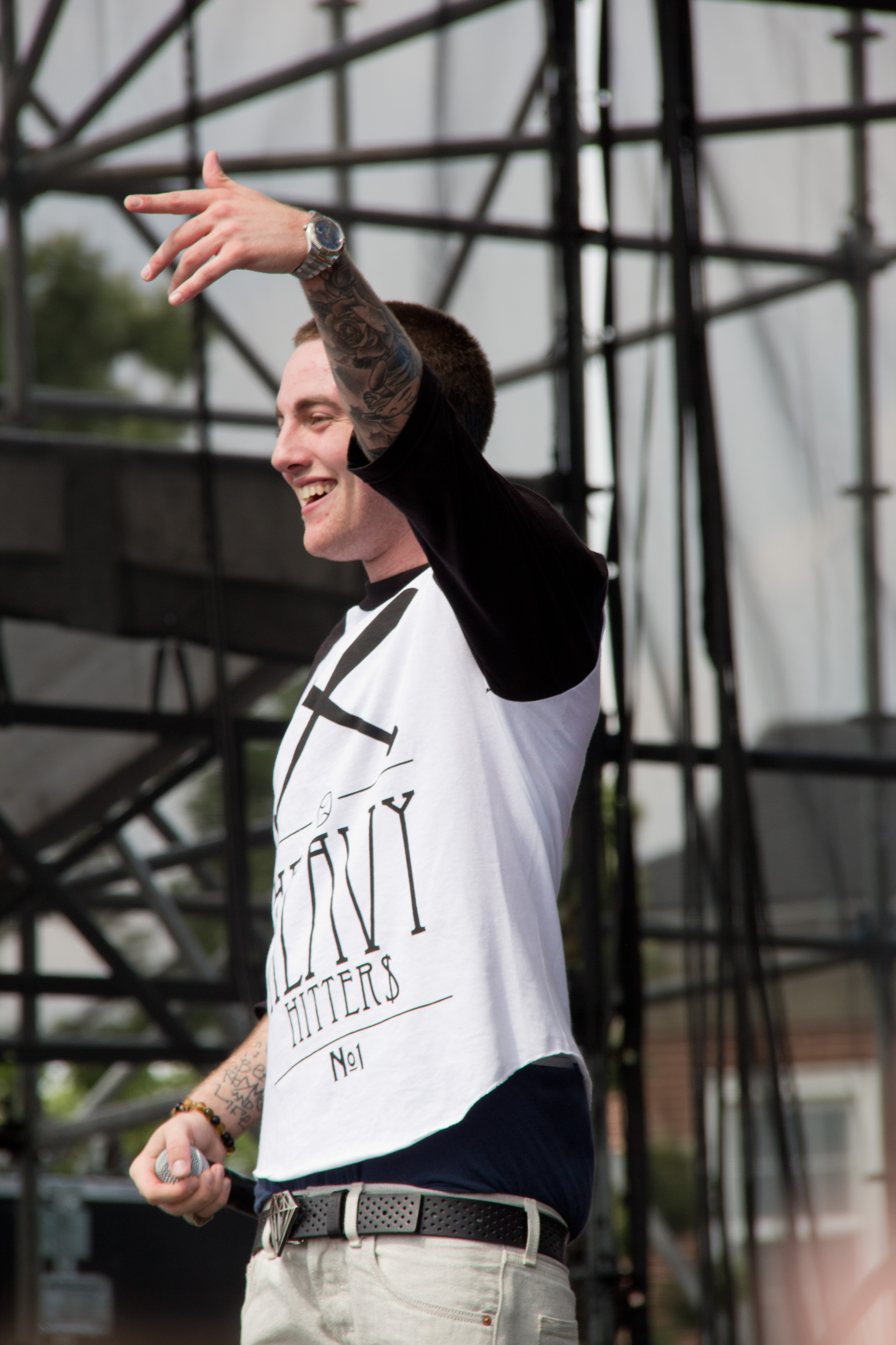 Mac Miller at Governors Ball 2011